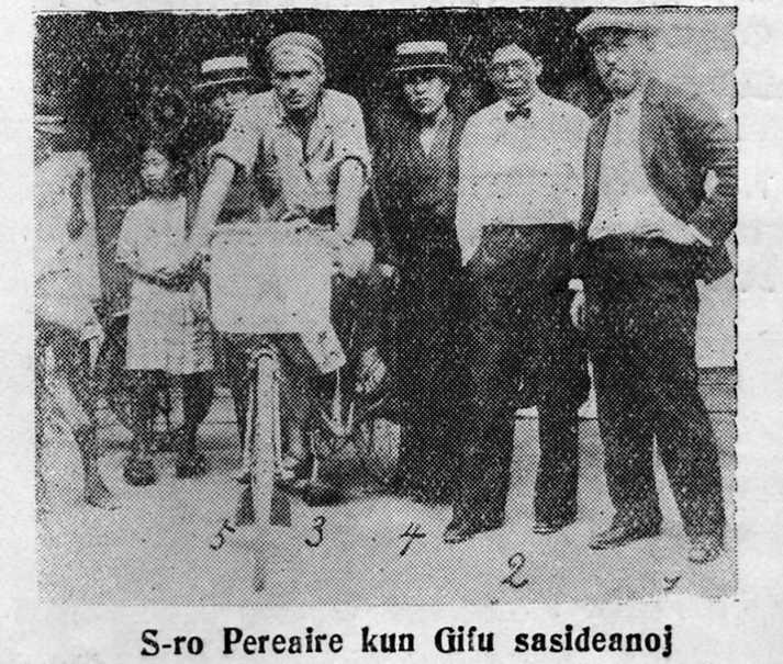 Lucien PERAIRE. French esperanist who traveled in Eurasia, with his bicicle and esperanto between 1928 and 1932. Picture of him, in Gifu.